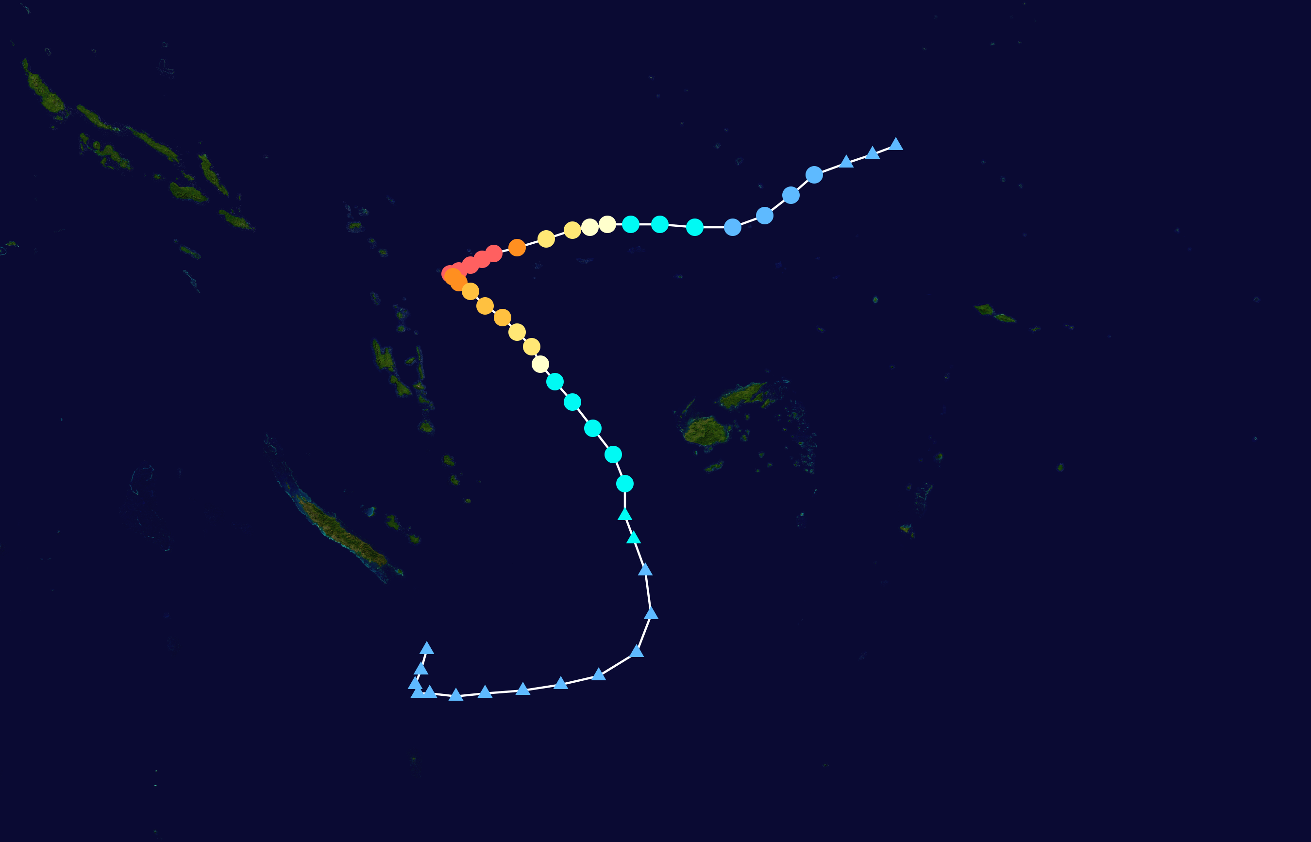 Cyclone Zoe (2002) track. Uses the color scheme from the Saffir-Simpson Hurricane Scale.